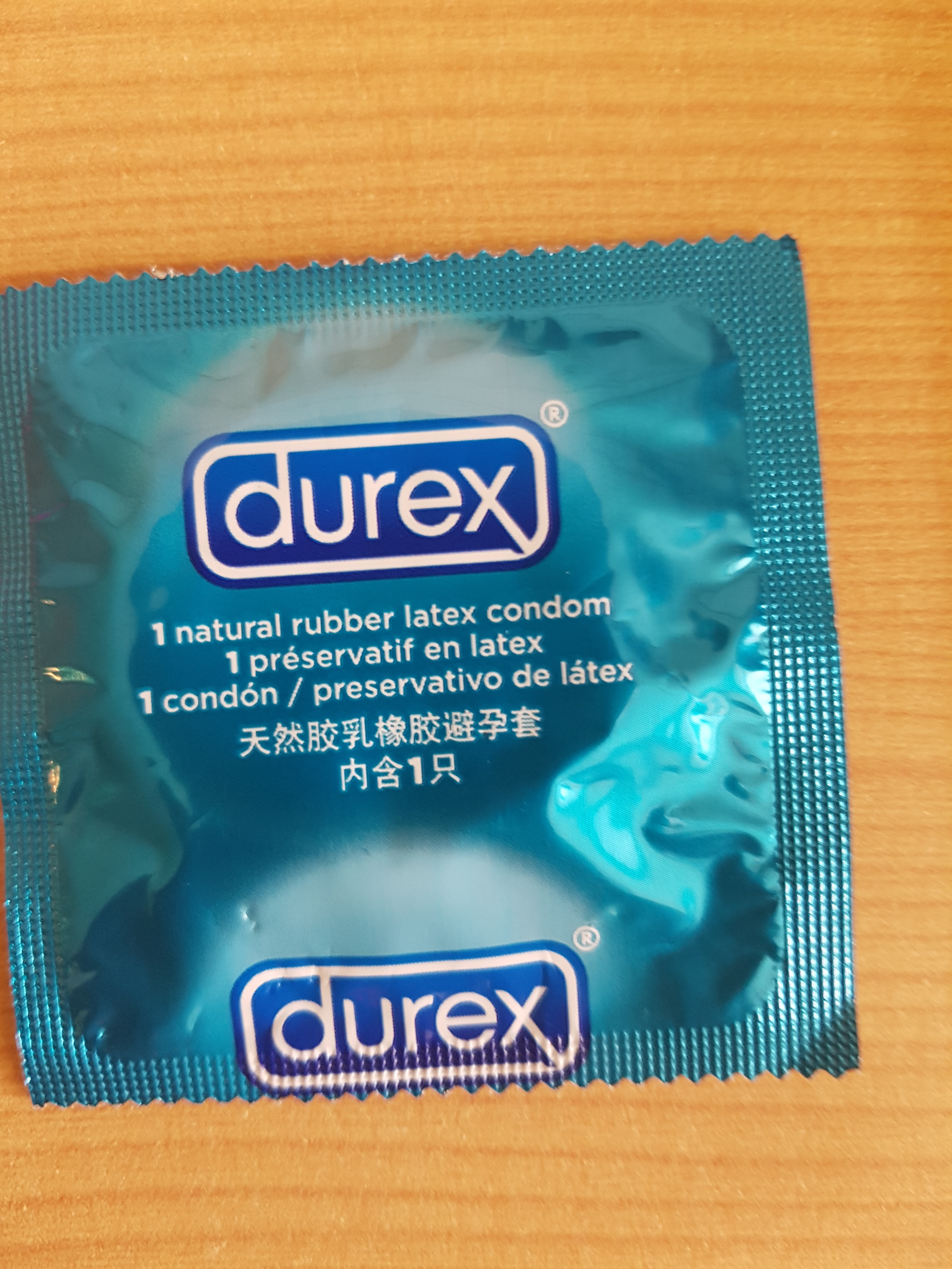 French brand of condom